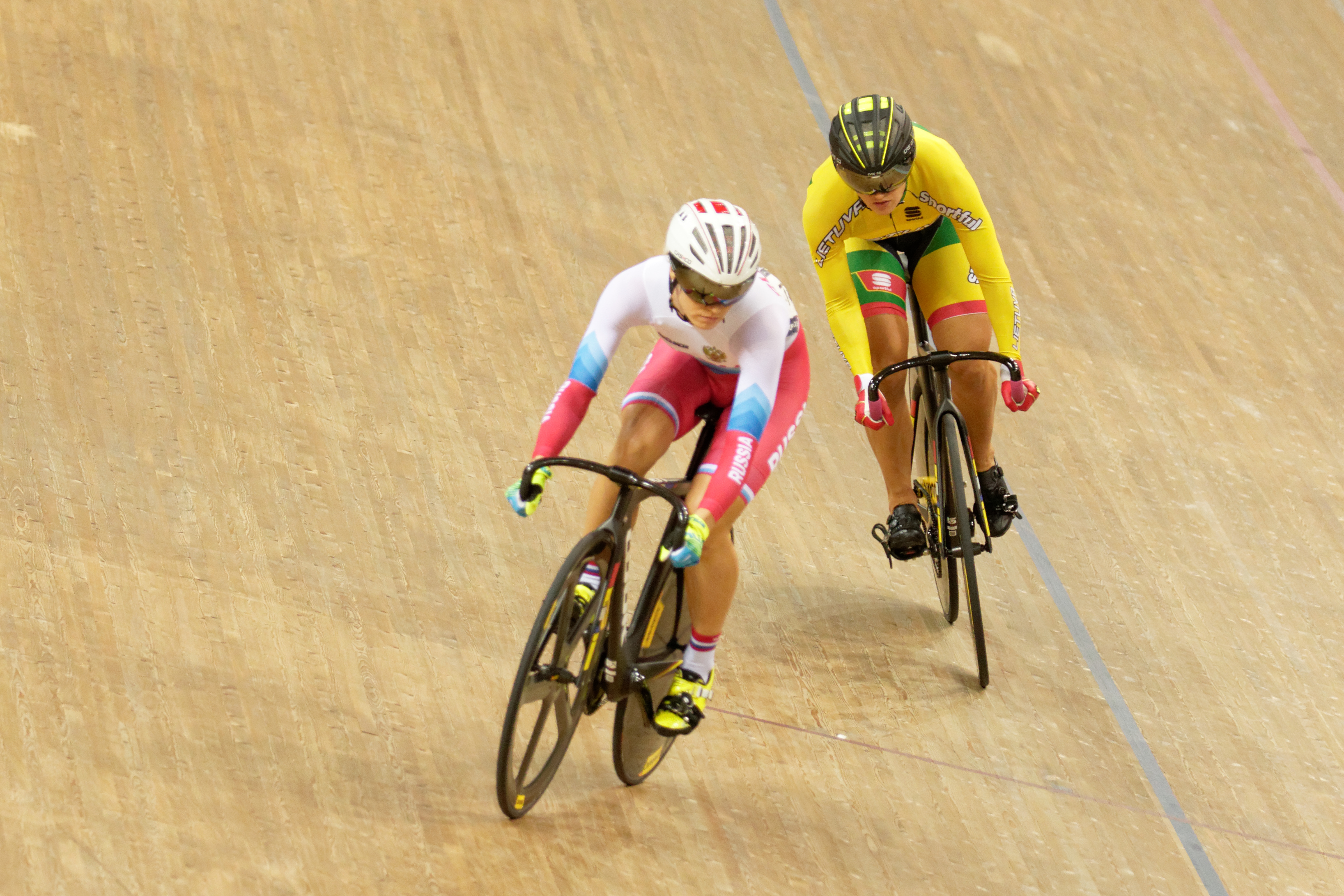 2016 UEC European Track Championships